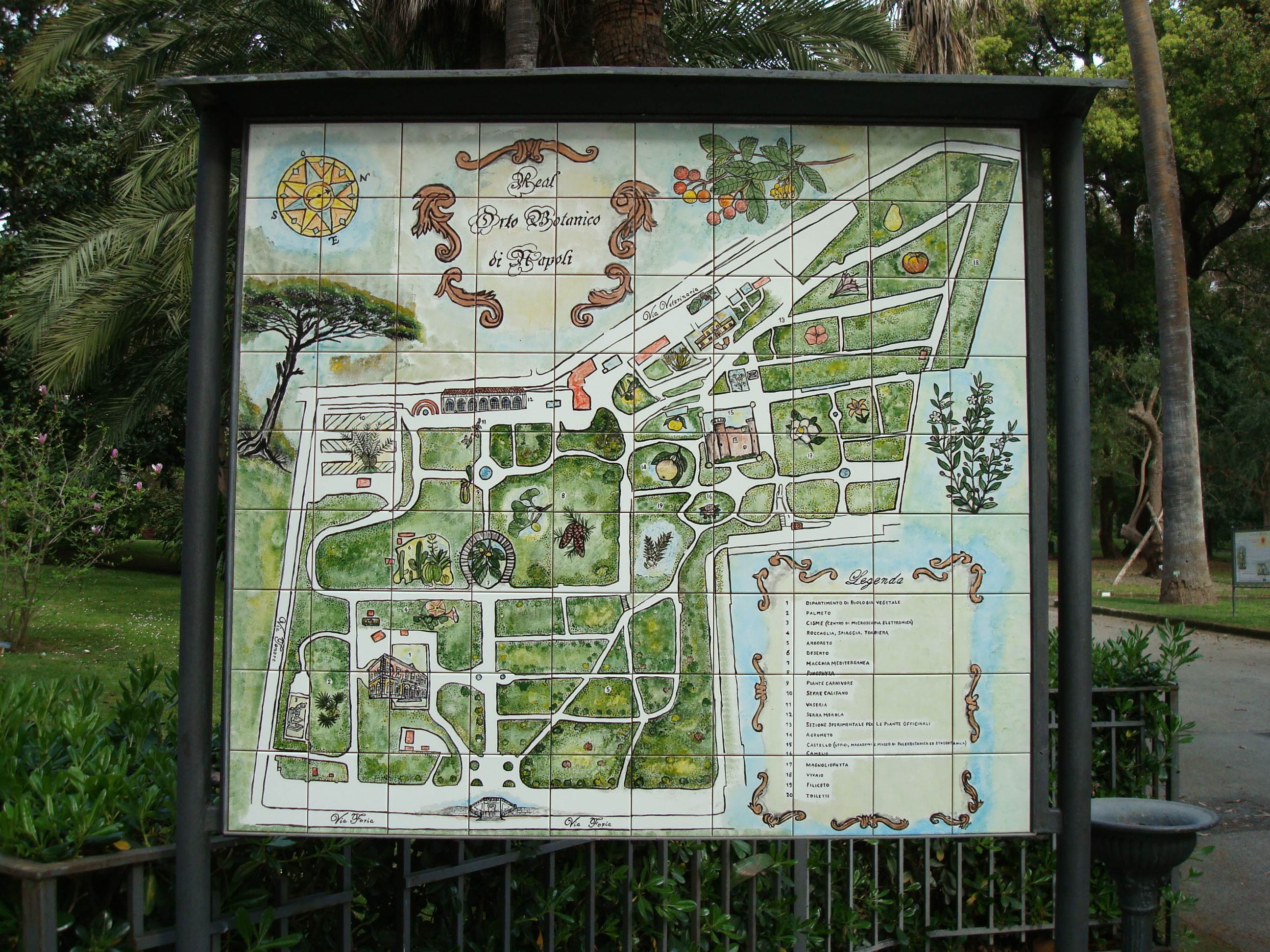 Plan du Jardin botanique de Naples